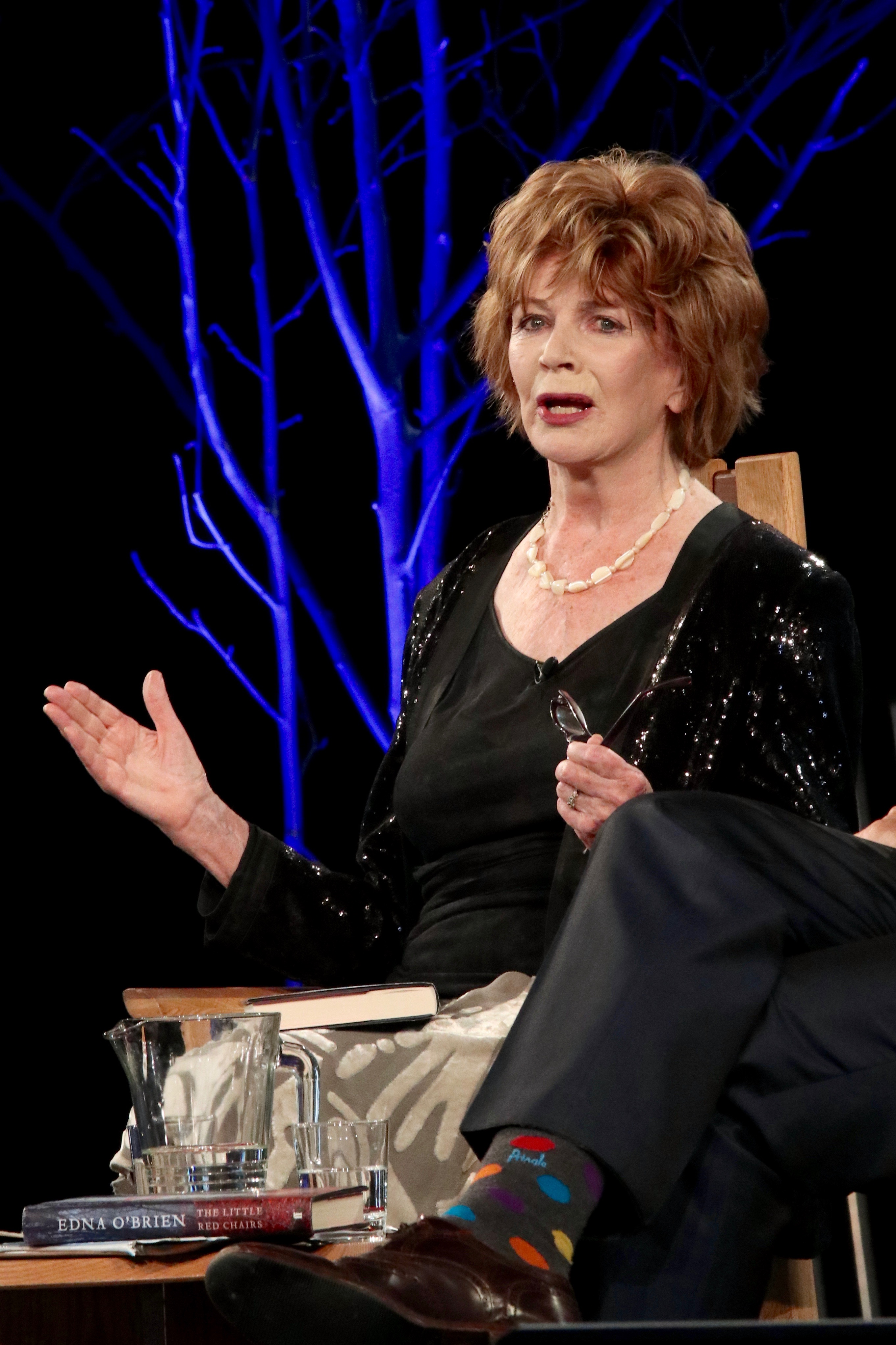 Hay Festival 2016 - Edna O'Brien